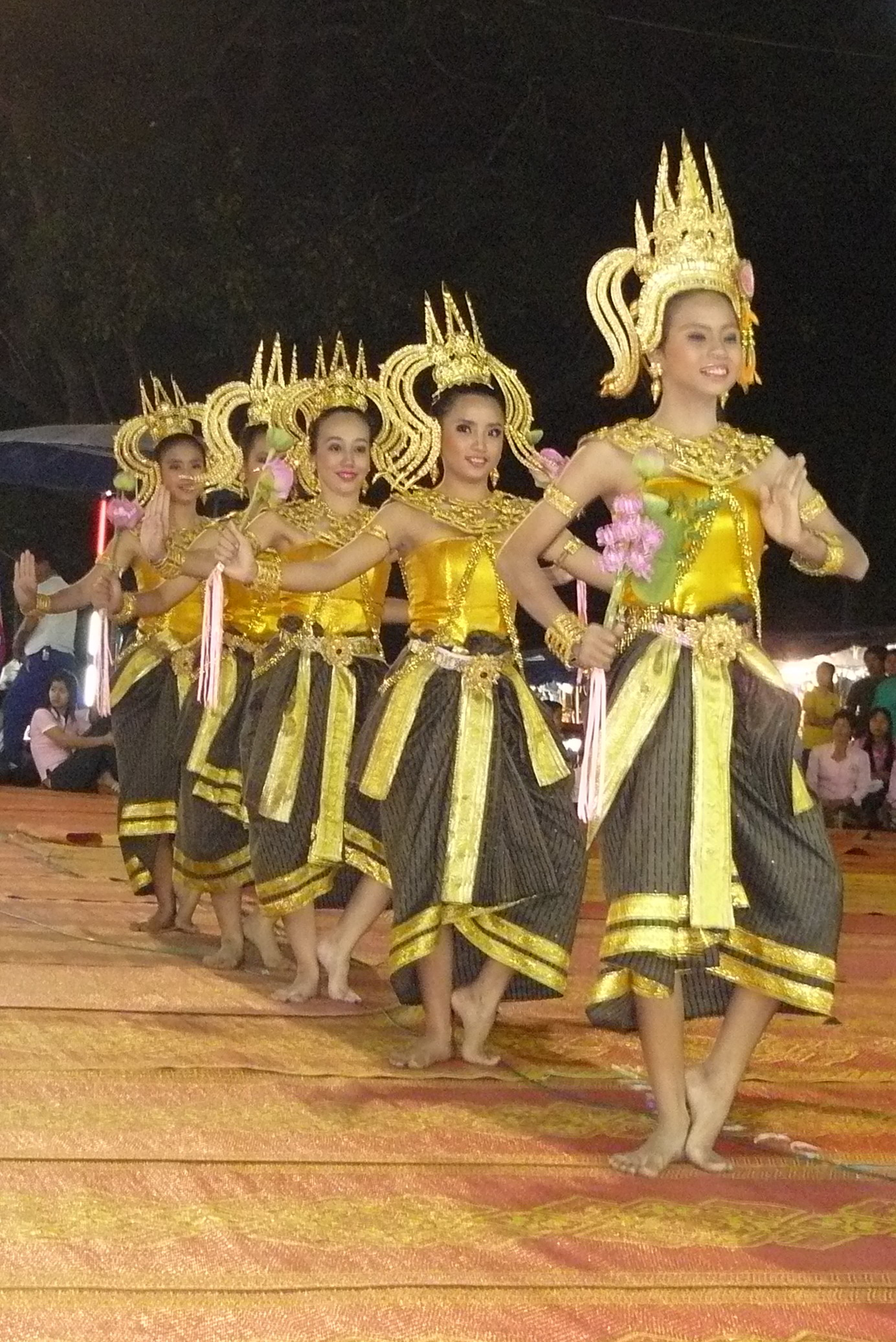 dancing art Thai ancient show in the Wat Phra Thaen Sila At fair in Thung Yang subdistrict, Amphoe Laplae, Uttaradit Province, Thailand.